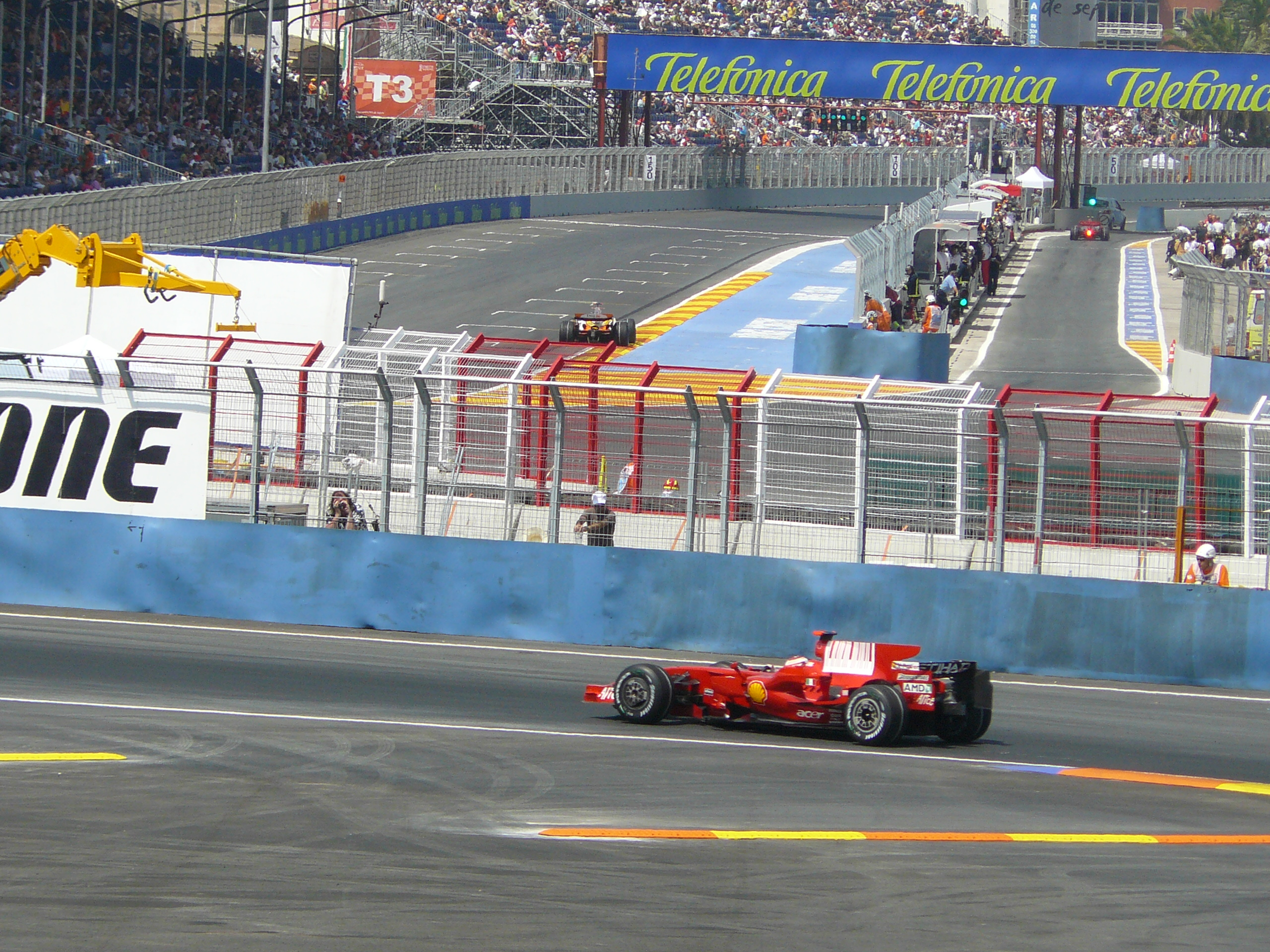 Kimi Raikkonen, Ferrari - Formula 1 Grand Prix of Europe, Valencia Street Circuit, Spain, August 2008